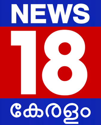 News 18 Kerala logo.